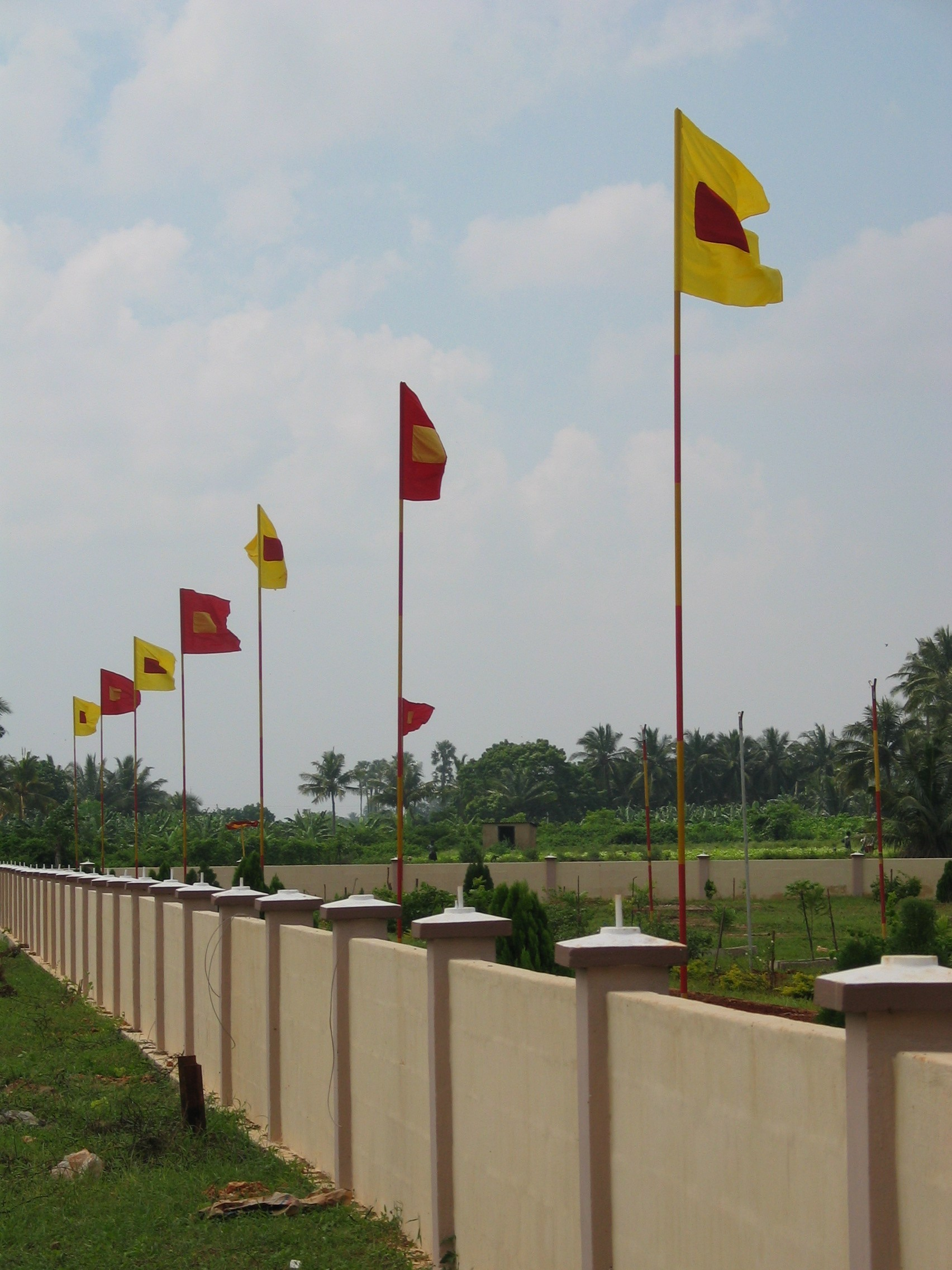 LTTE flags on the Kopai graveyard for heroes, Jaffna peninsula